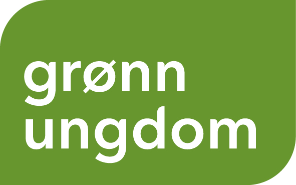 Norwegian Young Greens' logo as of April 2013